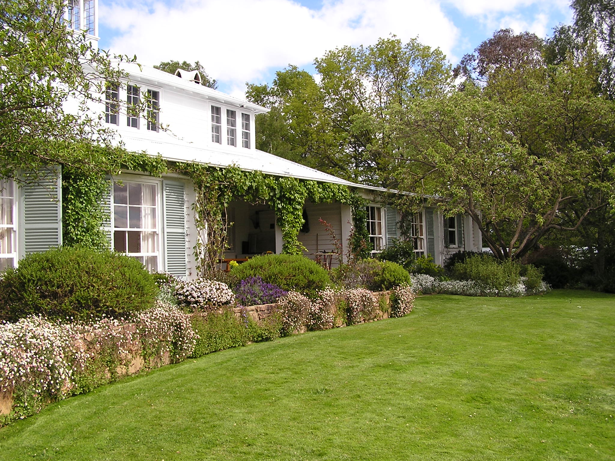 The garden of Markdale at Binda near Crookwell, New South Wales, Australia. The garden was designed by Edna Walling in 1947. It surrounds a homestead built in 1921 and restored by the architect Professor Leslie Wilkinson.